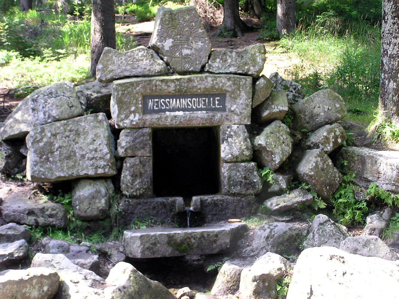 Description: Weißmainquelle Source: Selbst fotografiert Date: 18. August 2005 Author: Schubbay